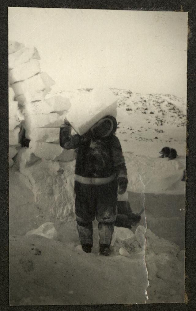 Ekspeditionshytten ”Blæsebælgen” blev bygget i efteråret 1921 og tætnet med sneblokke. Hytten blev opført på Danske Øen i Østcanada og blev brugt som base og til overvintring af den 5. thuleekspedition. Hytten fik navn efter sin vindomsuste placering. Det trak i hytten i de måneder, hvor bræddevæggen ikke kunne tætnes med sne. Både under opholdet ved Blæsebælgen og på de lange slæderejser i Canada og Alaska var skinddragter nødvendige for overlevelse. This Expedition hut, named "The Bellows", was build in the fall of 1921 and sealed with blocks of snow. The hut was build on Danske Øen in East Canada and was used as a base and for overwintering by the 5th Thule-expedition. The hut was named after its windy location. It was draughty in the months, during which the plank walls couldn't be insulated with snow. Both during the stays at the Bellows and the long journeys by dog sledge through Canada and Alaska, skin clothing was a necessity for survival.